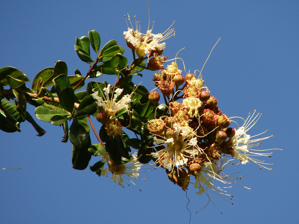 Lafoensia pacari. Origin: Brazil and Paraguay. Location: Cultivated in Toowong park near Mt. Coot-tha botanic garden, Brisbane, Australia. It is big nice tree and flowers were far up.